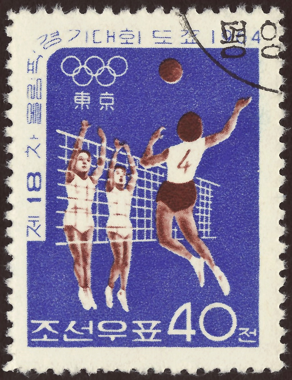 Stamp of North Korea (Democratic People's Republic of Korea, 조선민주주의인민공화국); 1964; commemorative stamp of the issue "18th Olympic Summer Games, 1964, Tokyo"; stamp drawing of three volleyball women at match; stamp postmarked Stamp: Michel: No. 546; Yvert et Tellier: No. 527 Color: dark violet blue / dark brown (blue dominating) Watermark: none Nominal value: 40 Cheun Postage validity: from 9 May 1964 until ? Stamp picture size (printed area): 25.5 x 35.0 mm